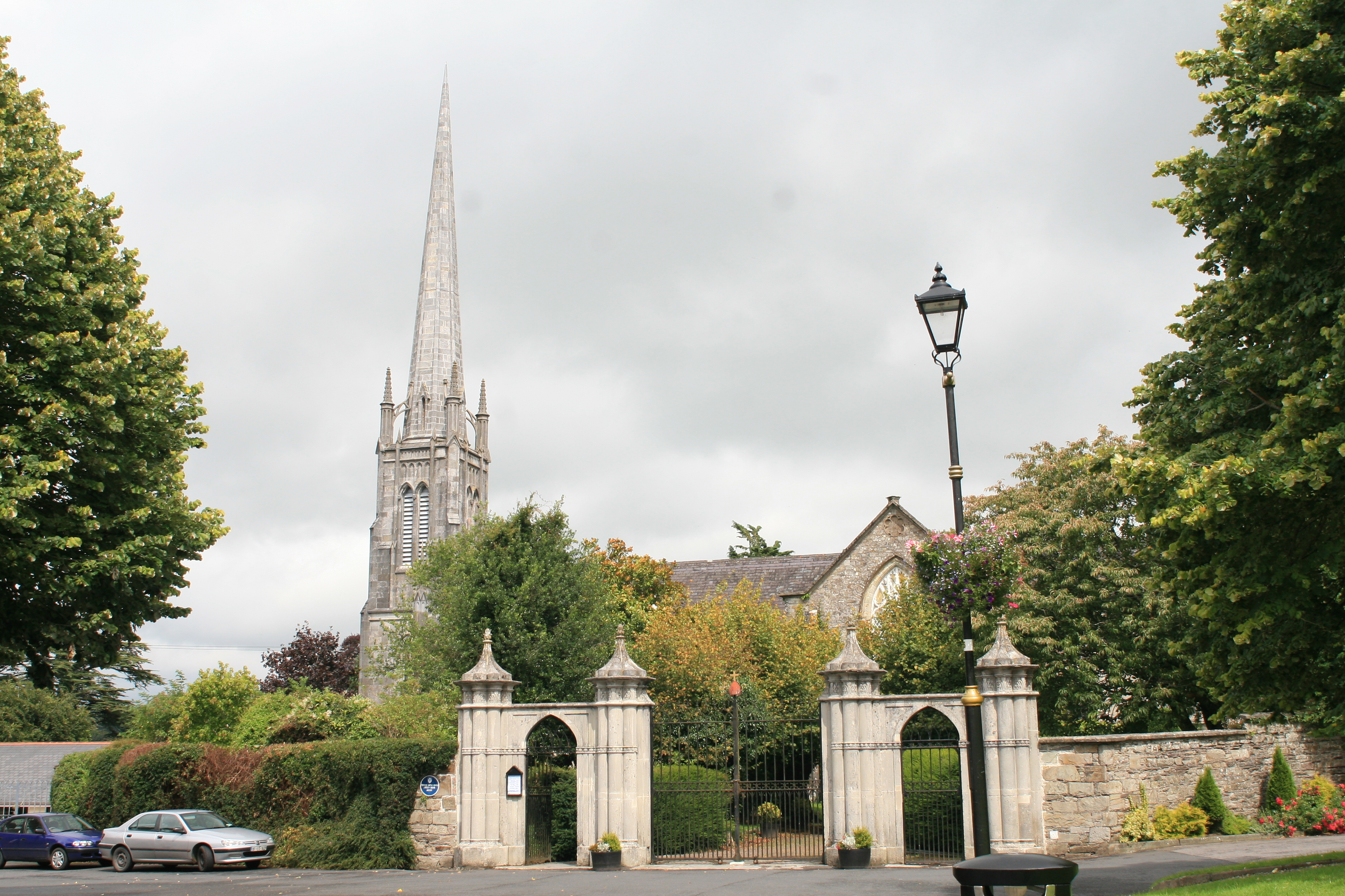 St. Carthage's Cathedral as seen from the south.